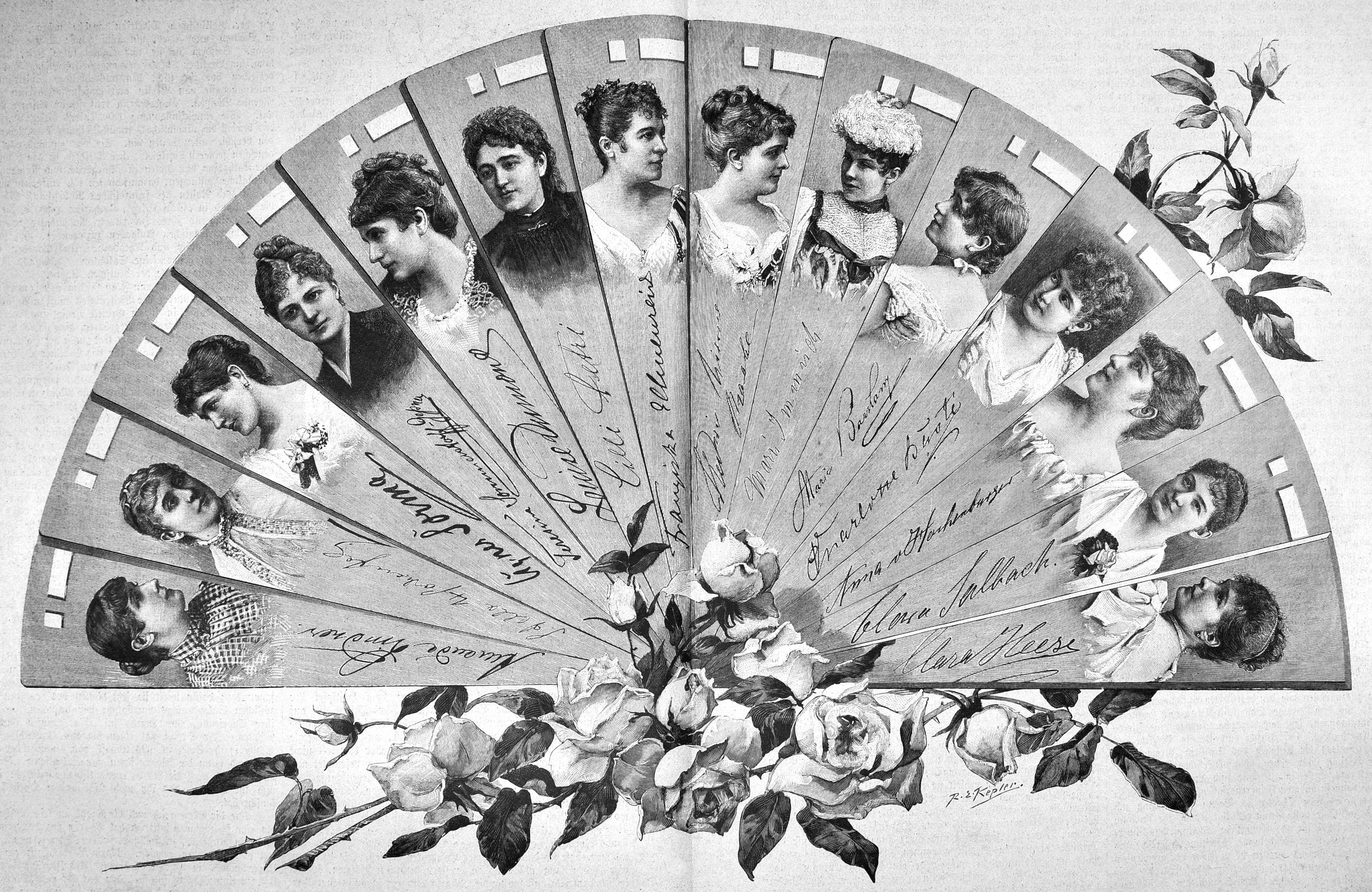 caption: "Liebhaberinnen der deutschen Bühne.Der umrahmende Fächer nach einer Originalzeichnung von R. E Kepler."